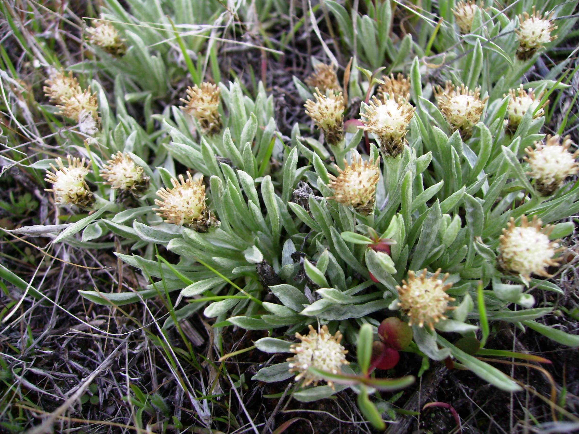 Antennaria dimorpha near Monitor, Chelan County Washington